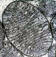 Electron micrograph of a single mitochondrion showing the organized arrangement of the protein matrix and the inner mitochondrial membranes. (Photo: U.S. Dept. of Health and Human Services/National Institutes of Health)